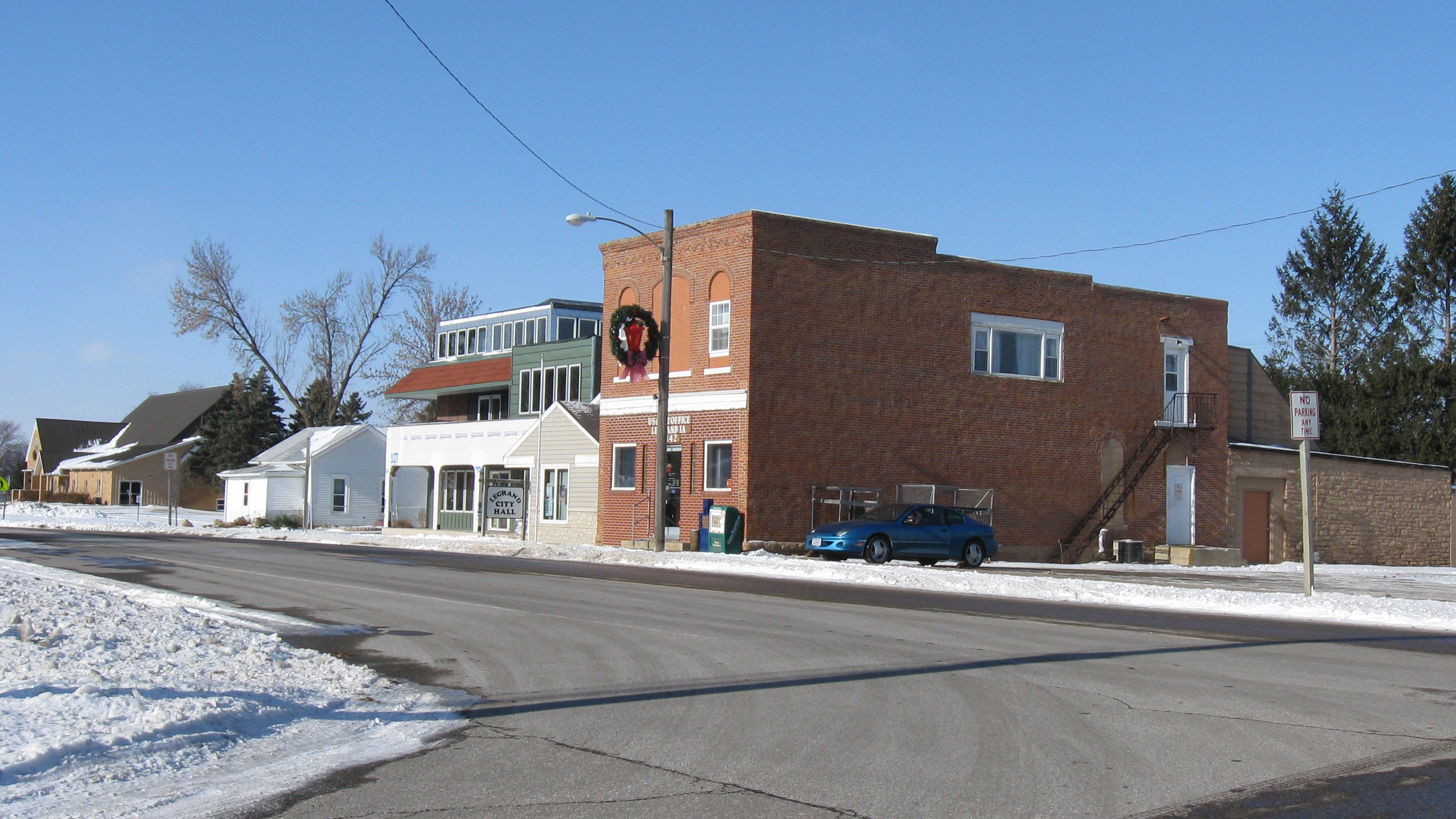 Billwhittaker (talk) 14:34, 8 December 2008 (UTC) Le Grand, Iowa